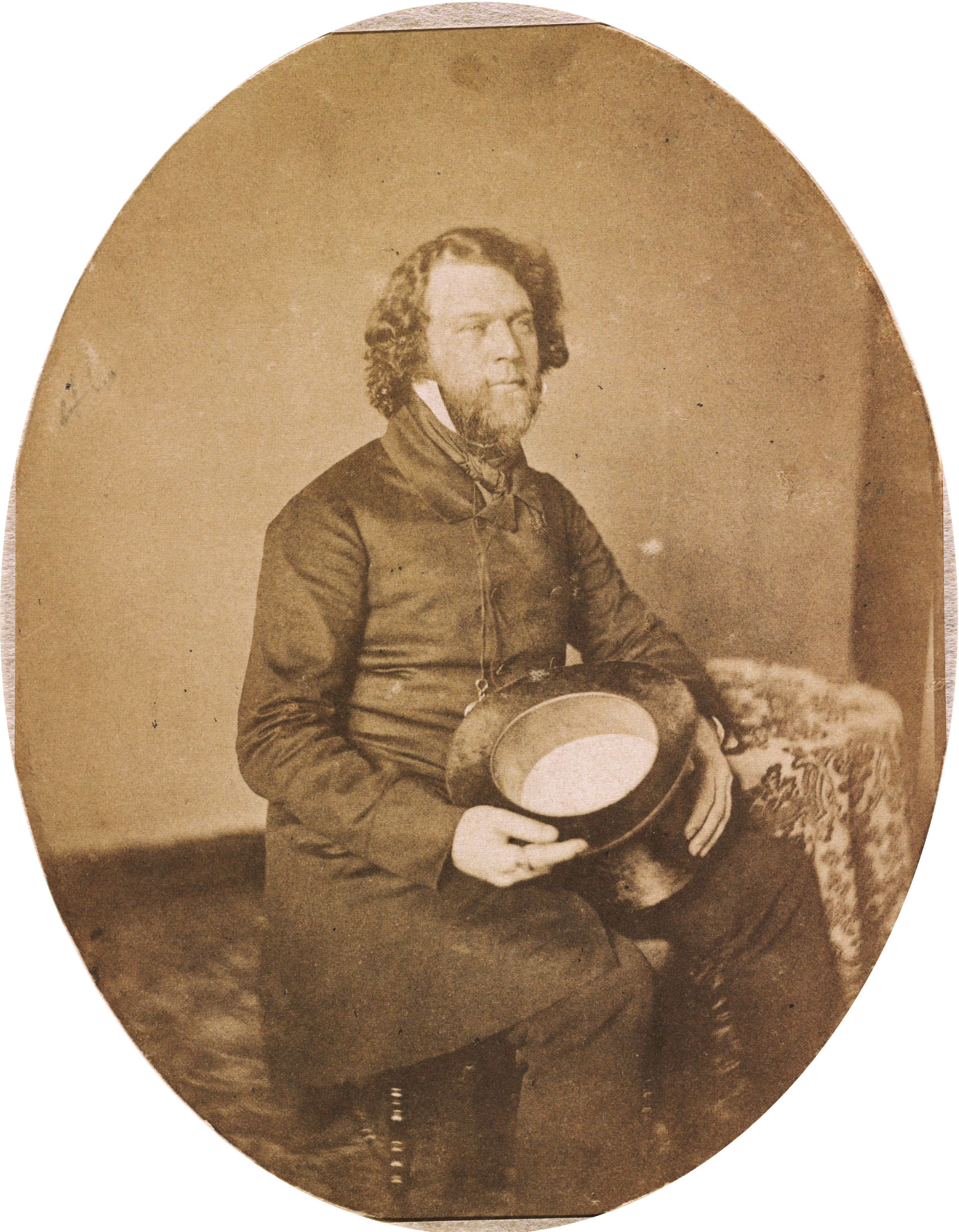 Portrait of Richard Vaux, Mayor of Philadelphia, 1856-57. [Richard Vaux, three-quarter length studio portrait, seated, facing right, holding a top hat in his lap, with left elbow resting on a table]